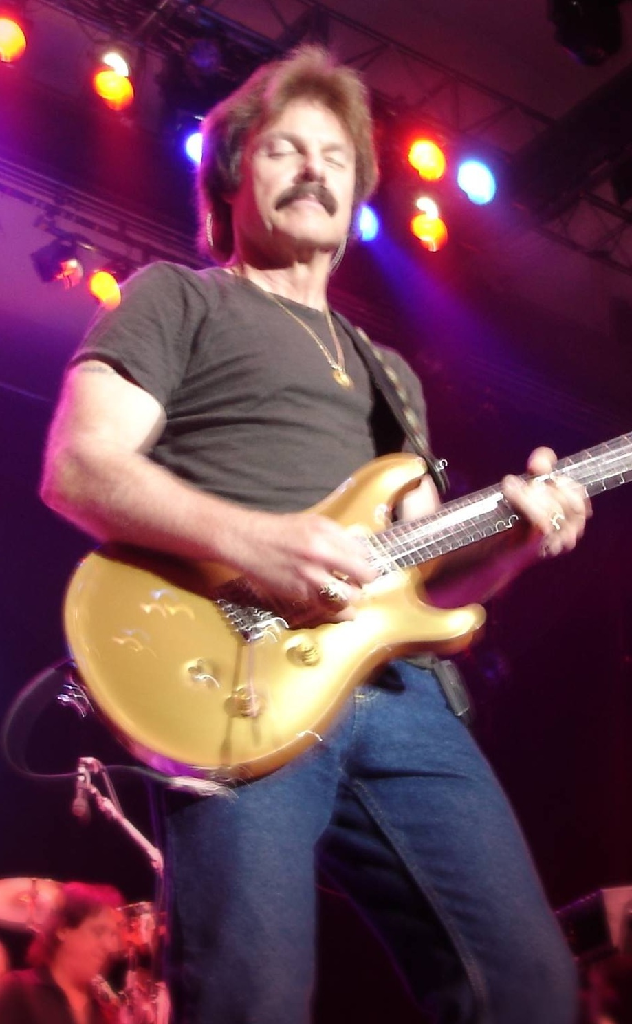 Tommy Johnston on stage Atlanta with PRS Artists Gold Top